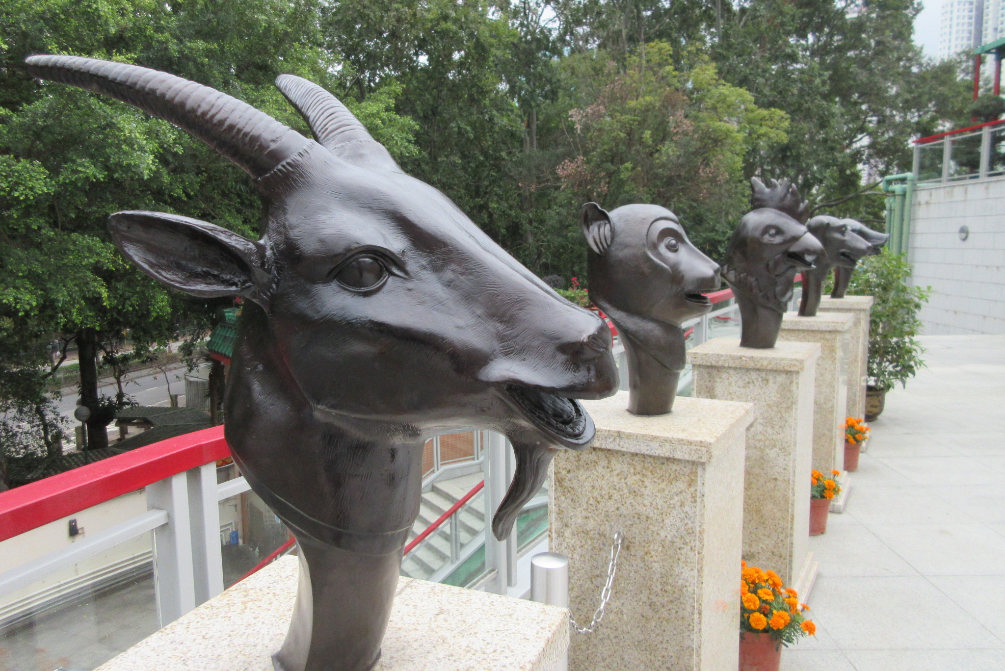 HK 粉嶺 Fanling 蓬瀛仙館 Fung Ying Sen Koon temple Chinese Zodiac statue heads in March 2017